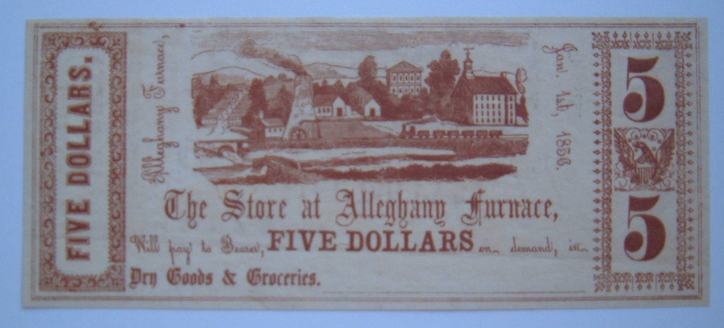 Banknote issued by a store. The value of this note is maintained by a payment promise (here in goods). See free banking. This note is unsigned and probably wasn´t issued. Text:"The Store at Alleghany Furnace [sic!] will pay to Bearer five Dollars on demand, in Dry Goods & groceries"